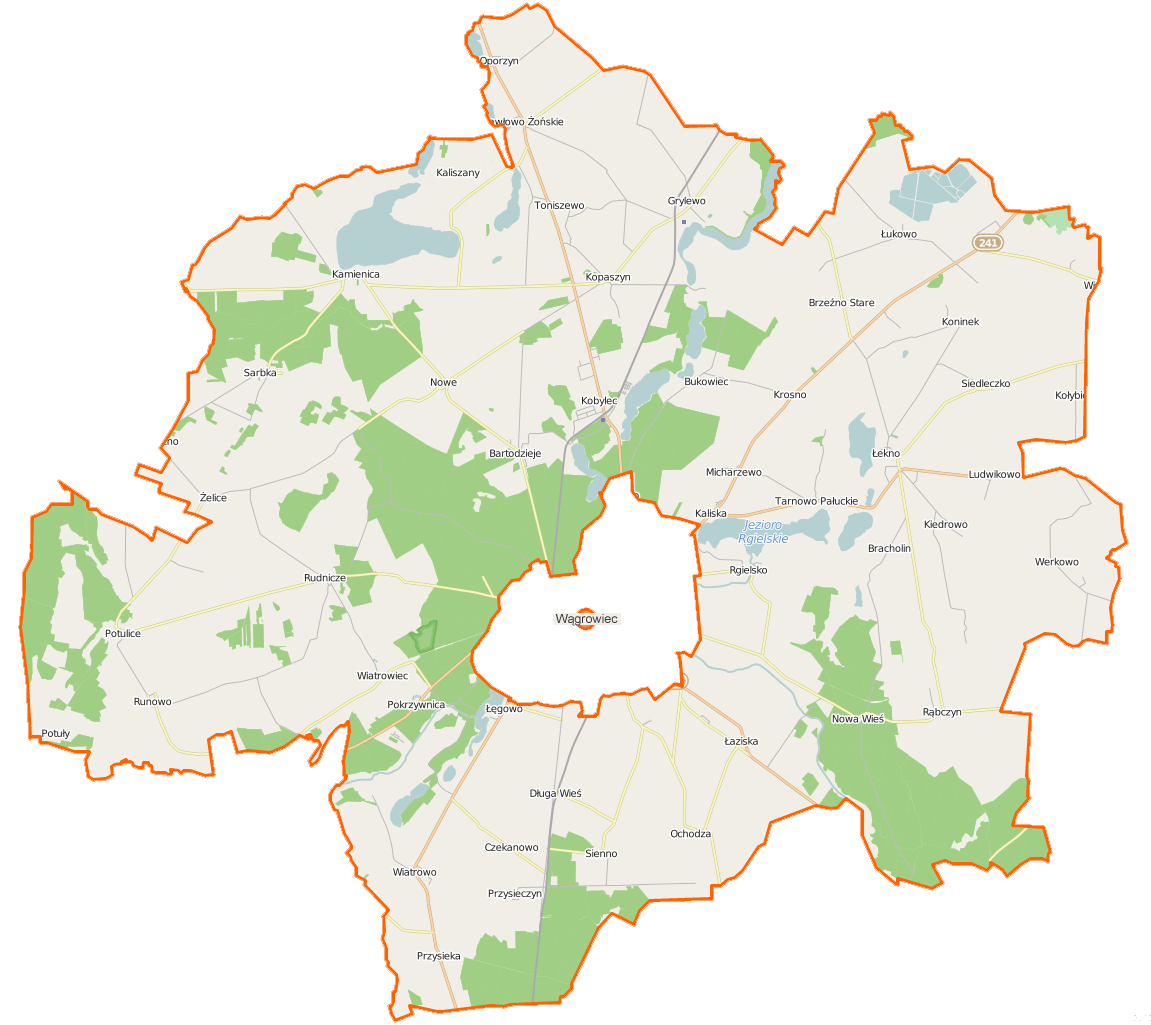 Map of Gmina Wągrowiec, Poland This map of Wągrowiec (gmina wiejska) was created from OpenStreetMap project data, collected by the community. This map may be incomplete, and may contain errors. Don't rely solely on it for navigation.